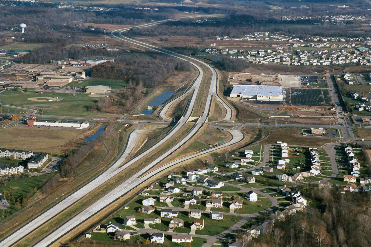 Aerial photo of the M-6/Kalamazoo Avenue interchange in Gaines Township, Michigan